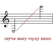 Es Clarinet.